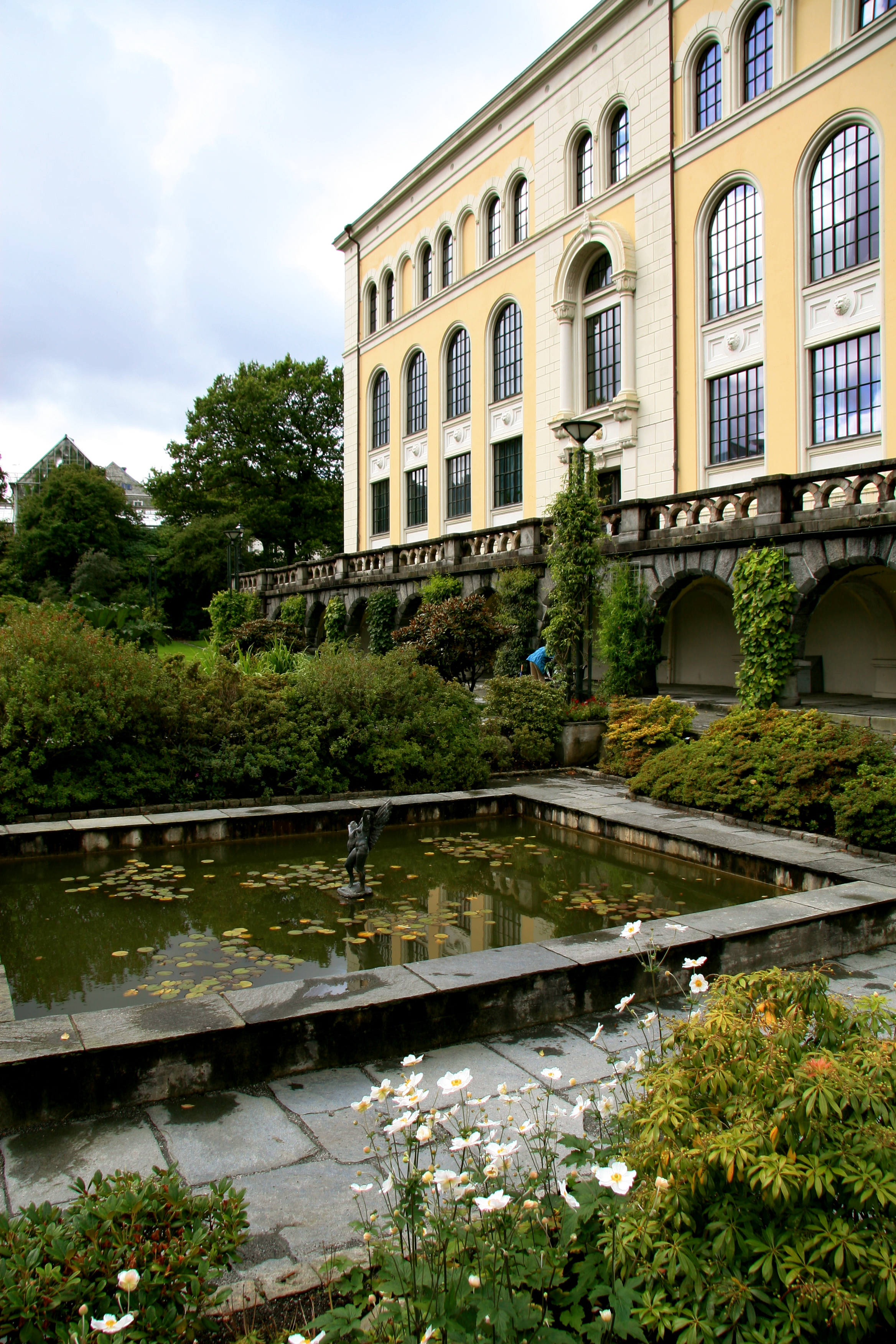 The Bergen Museum, Germany. The museum garden by the Natural History Collections of Bergen Museum. Bergen (Hordaland).